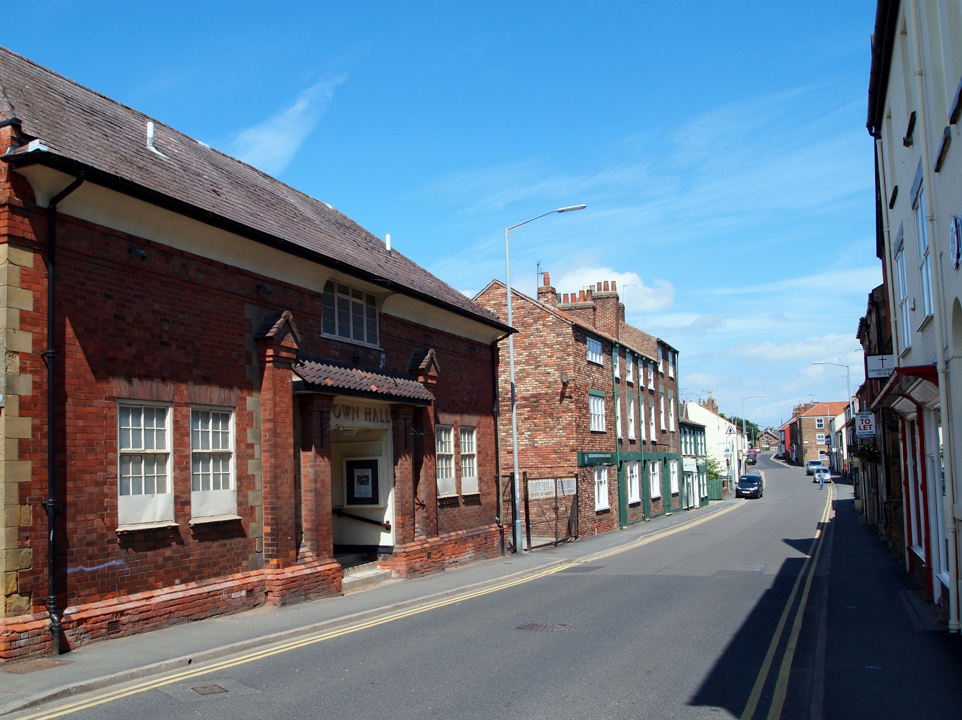 Driffield YO25, East Riding of Yorkshire, England.The Corn Exchange on Exchange Street was built in 1842. It is adjacent to The Bell Hotel and has been subsumed into that complex. It did however, serve as The Town Hall for a period (length of time?) and it is still identified as such above its main entrance.